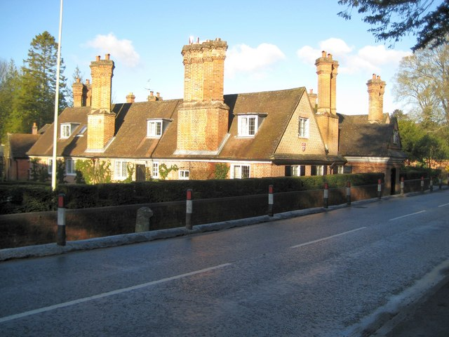 Donnington Hospital almshouses Donnington Hospital was founded by Sir Richard Adderbury in 1393 as a charity to provide alms to 13 poor men of Berkshire, thus making it the oldest charity in the county. The current almshouses here date from around 1602. The website of the Donnington Hospital Trust that owns and manages the almshouses is here